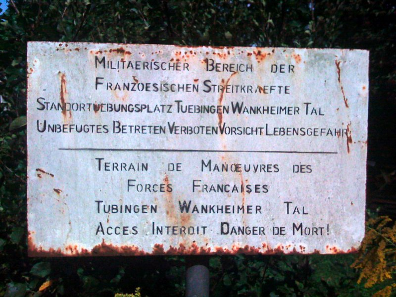 former Hindenburg-Kaserne Tübingen